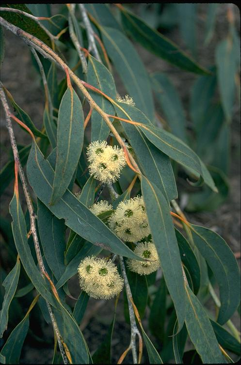 Flowers of Eucalyptus luehmanniana in the Australian National Botanic Gardens